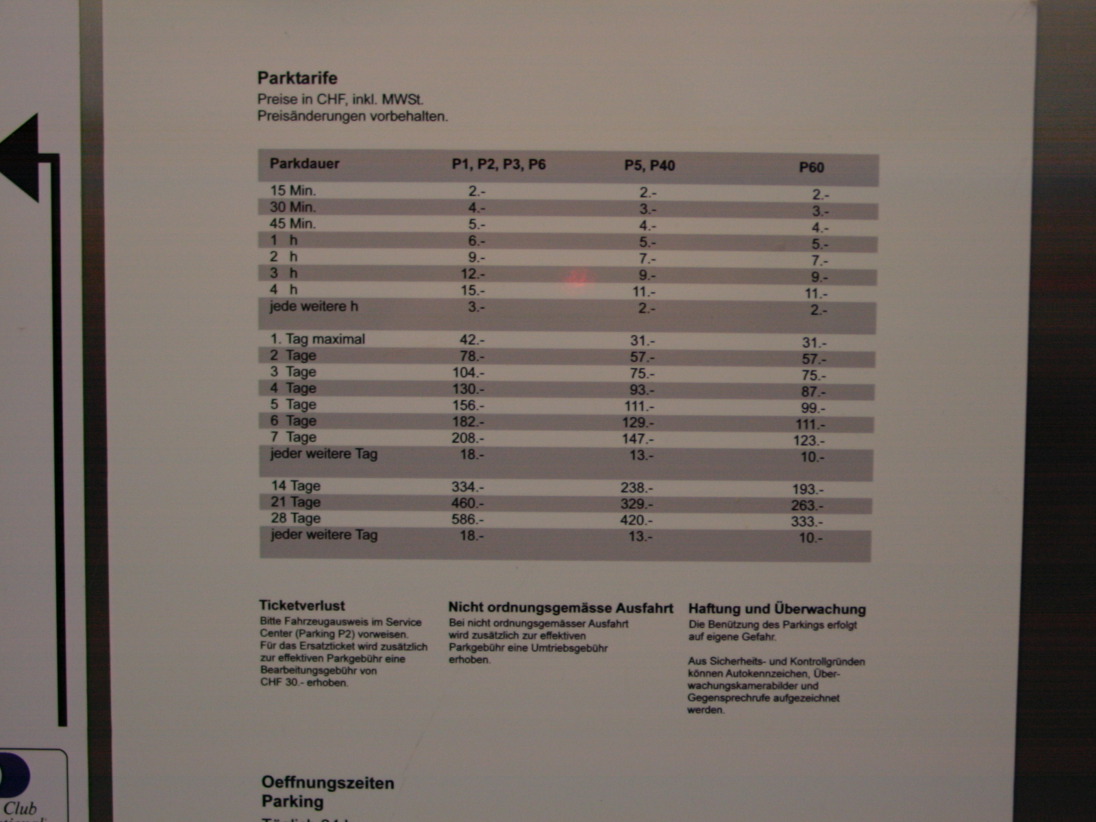 Pricetable at Parking Airport LSZH Zurich